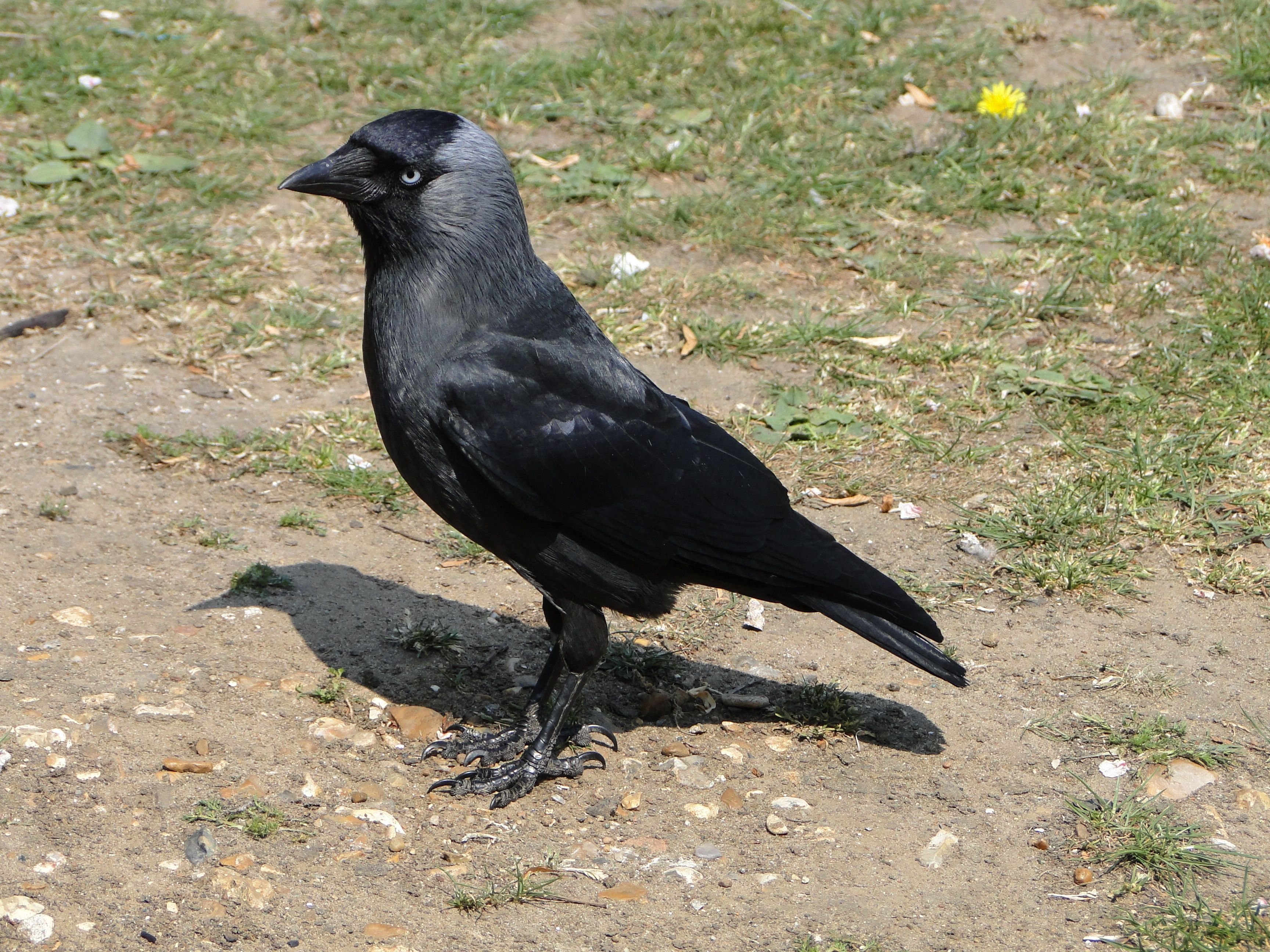 An adult Jackdaw on Ham Common, London Borough of Richmond upon Thames, England.